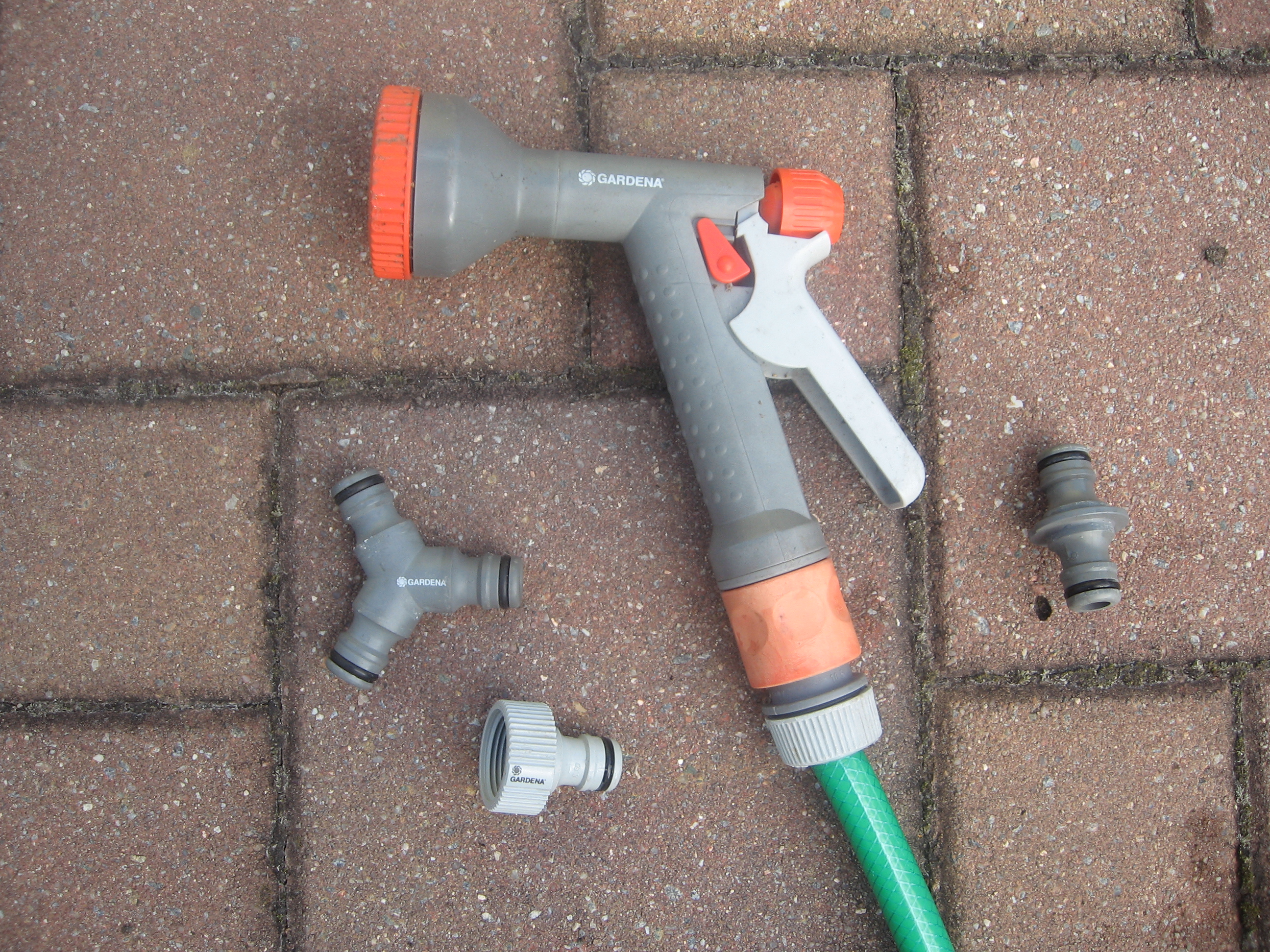 Garden sprinkler and various adapters for the Gardena plug system